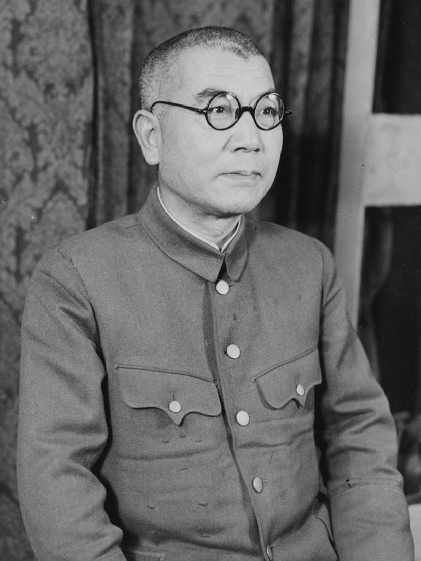 Akira Mutō during the trial for war crimes at International Military Tribunal for the Far East